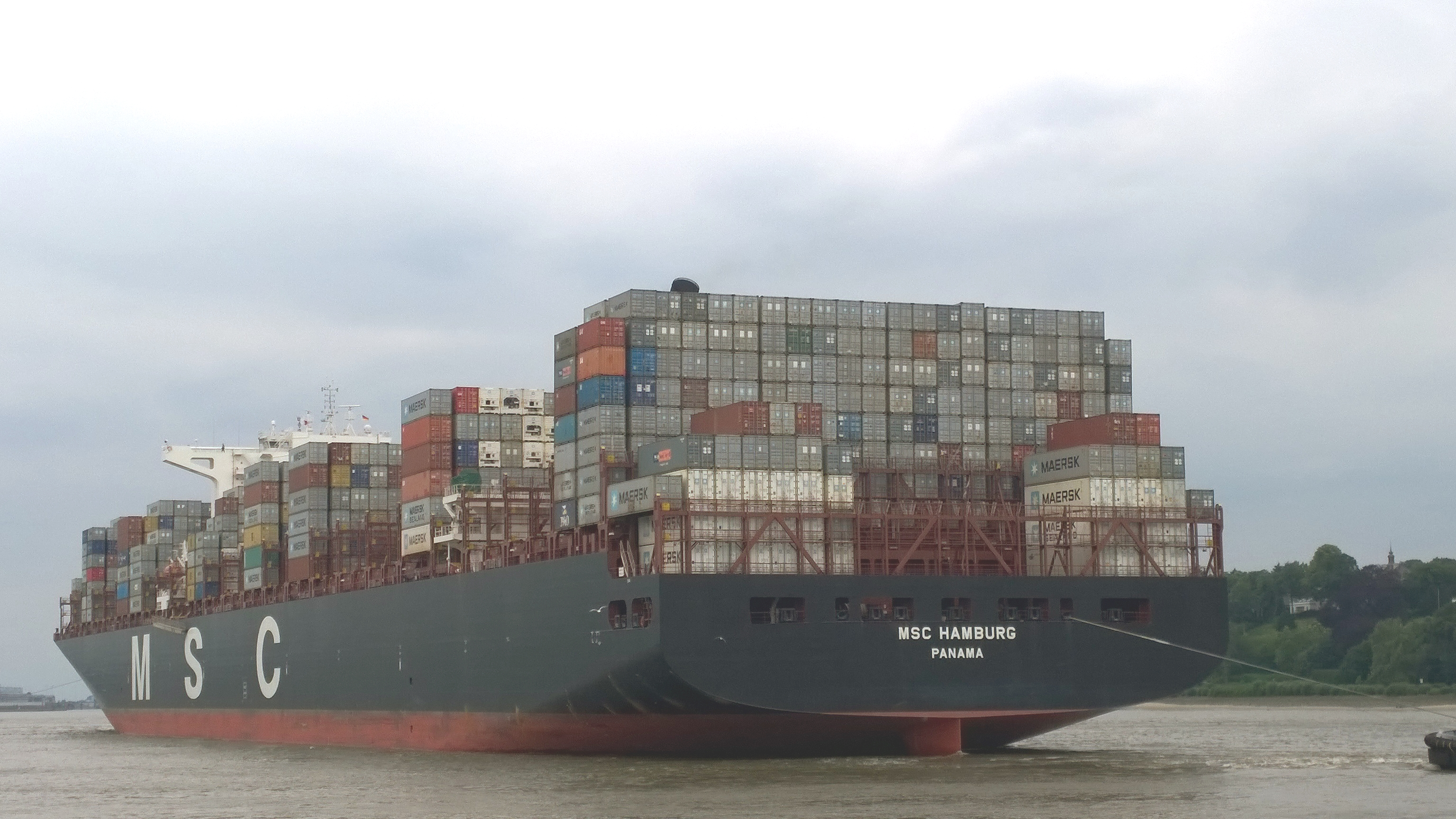 Container ship MSC Hamburg starting from the port of Hamburg in July 2016